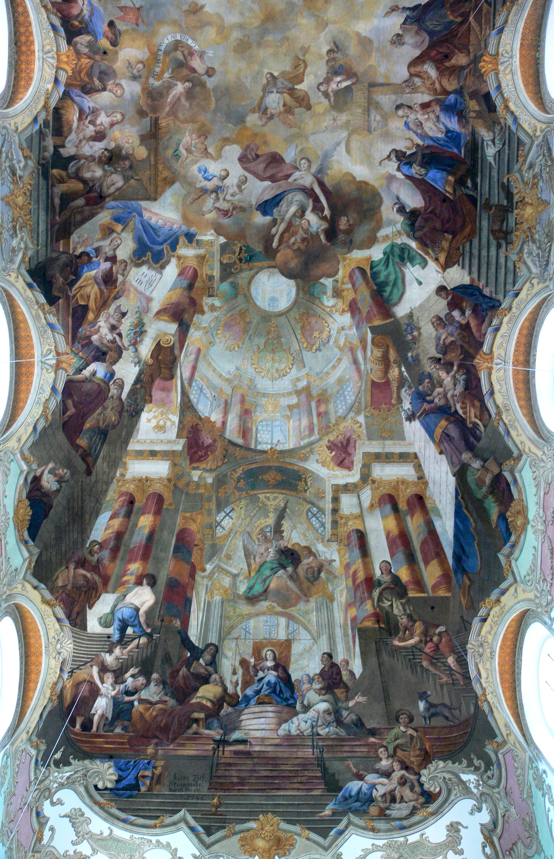 Scenes from the Life of Jesus, ceiling fresco painting in the main nave of the Municipal Parish Church of St. Martin in Biberach an der Riss, painted in 1746 by Johannes Zick.